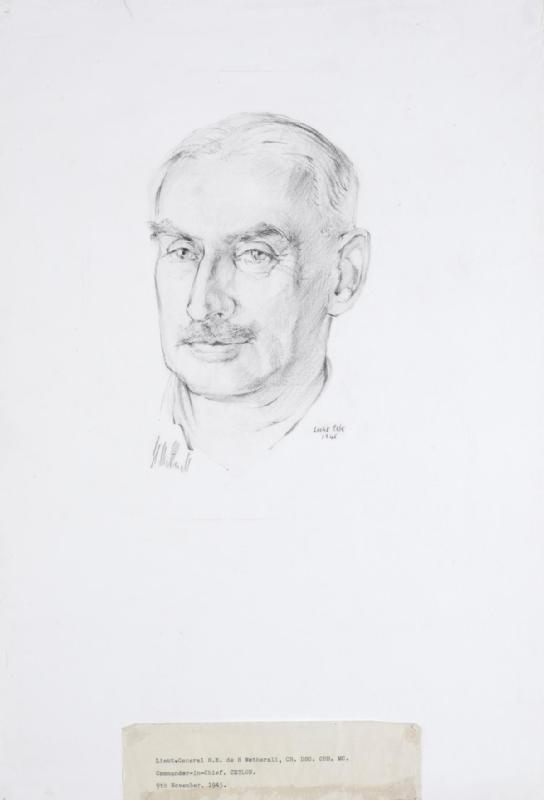 Lieutenant-general H E de R Weatherall, Cb, Dso, Obe, Mc - Commander-in-chief, Ceylon image: A head portrait of Lieutenant-General H E de R Weatherall.